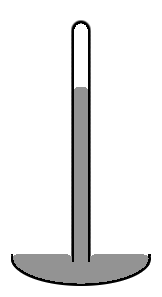 Schematic diagram of mercury barometer to illustrate negative meniscus.